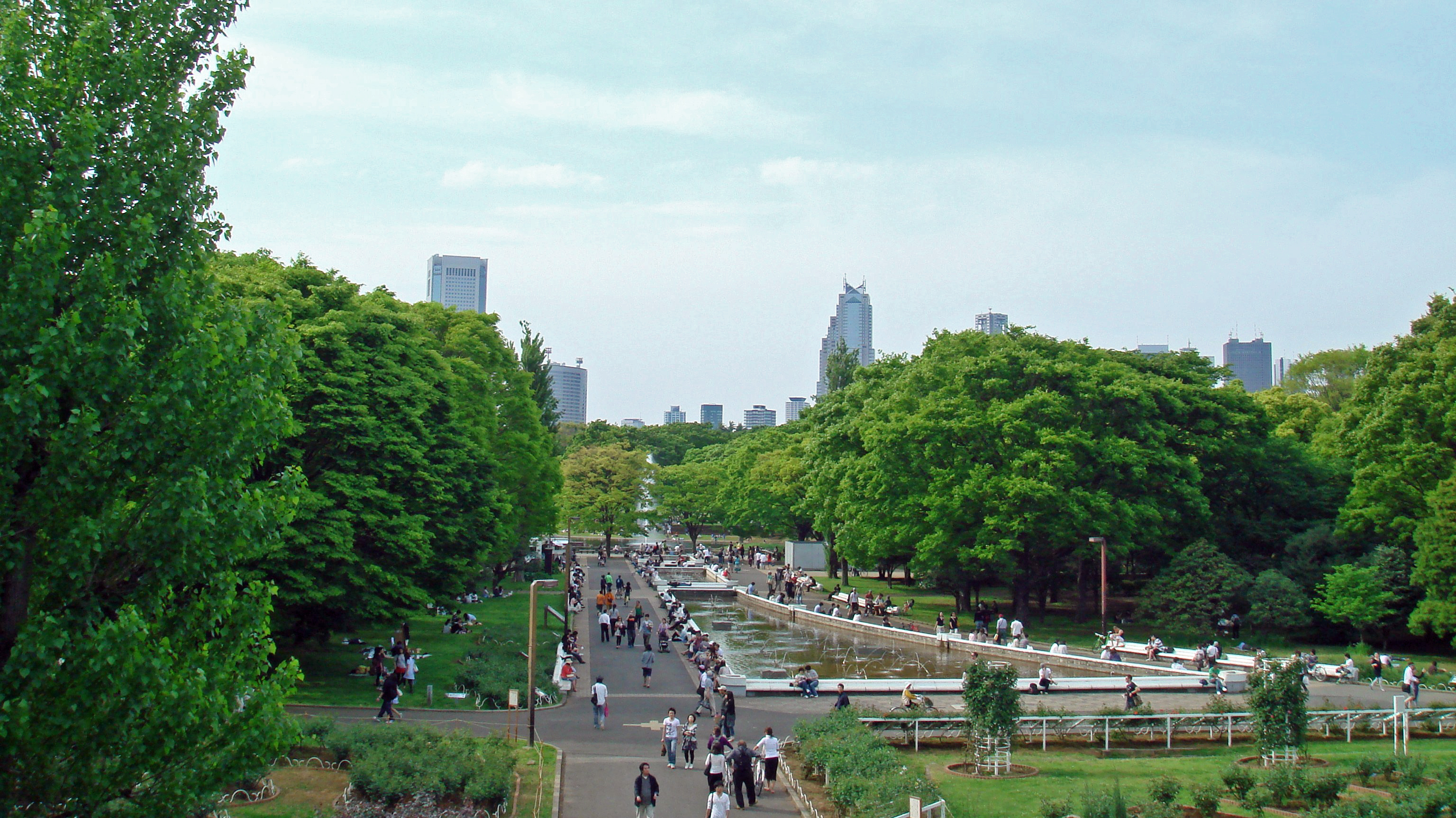 Main-street at the center of the Yoyogi-park on holiday